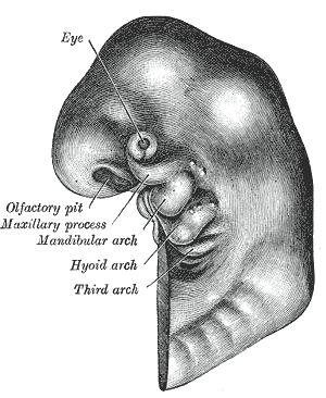 Head end of human embryo, about the end of the fourth week. (From model by Peter.)